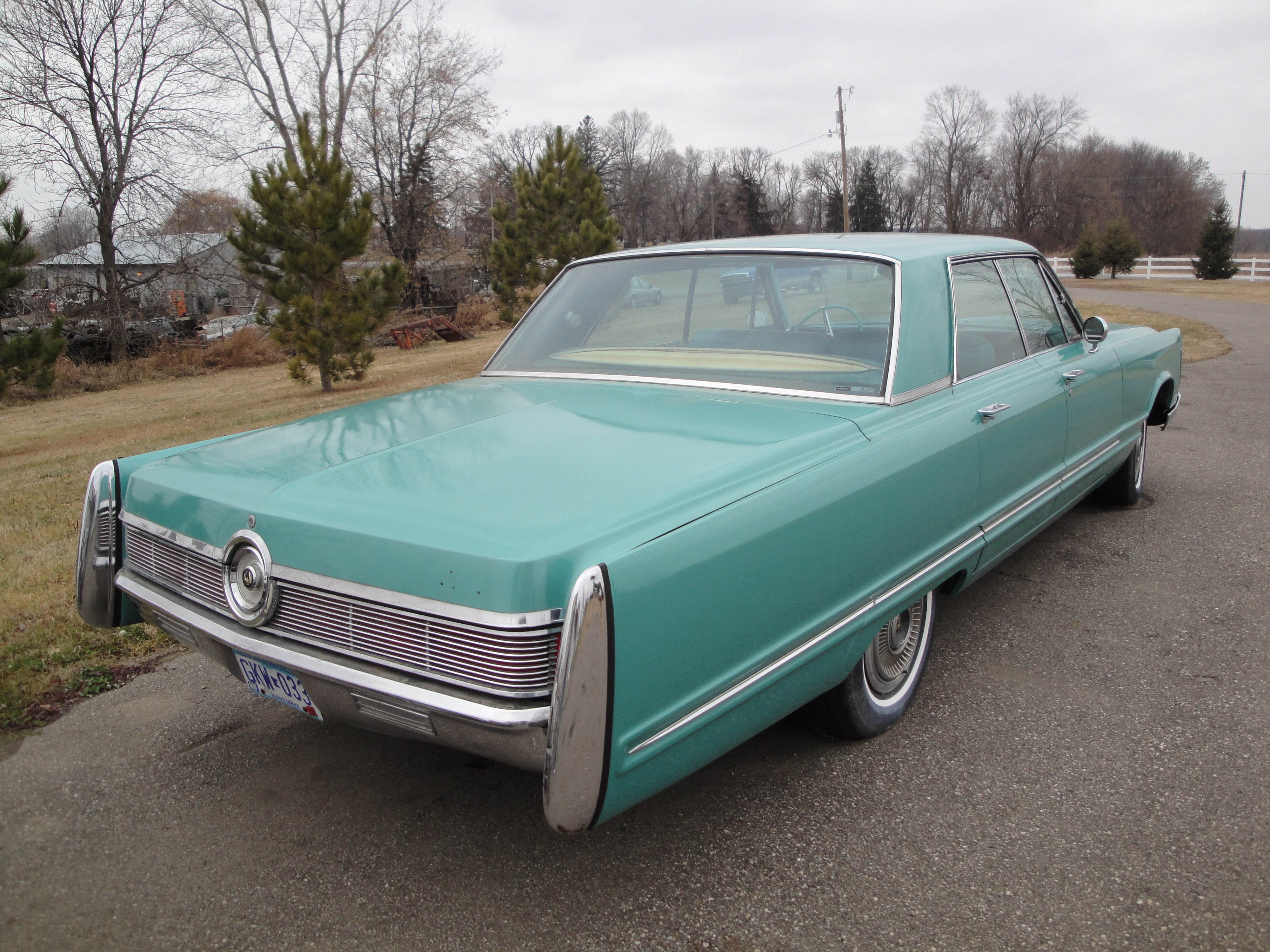 I had been passing by this Imperial for a couple of years. I finally had time to inquire about and ask if I could take some pictures. It did have right front fender damage. The fender is now fixed and the whole car has been repainted. The original finish looked good to me, but must have been faded.